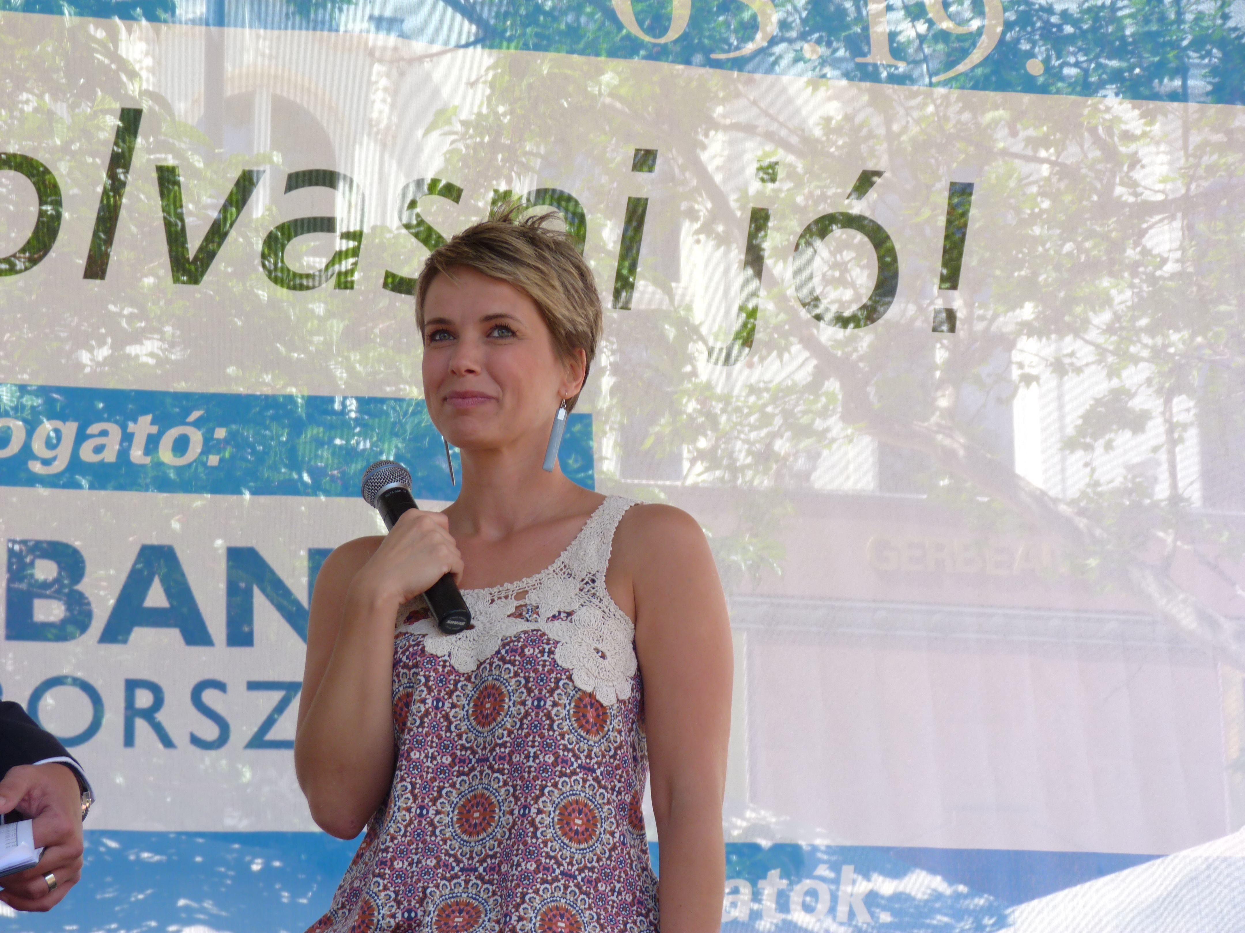 Live on the 19th of May, 2012. Budapest Downtown, Vörösmarty square. Press Fest Budapest is an annual two-day festival held in Downtown Budapest. The Festival was started to emphasize the role of the press in our society. Sponsored by Volksbank Hungary. Published under Creative Commons in the Metapolisz DVD line.